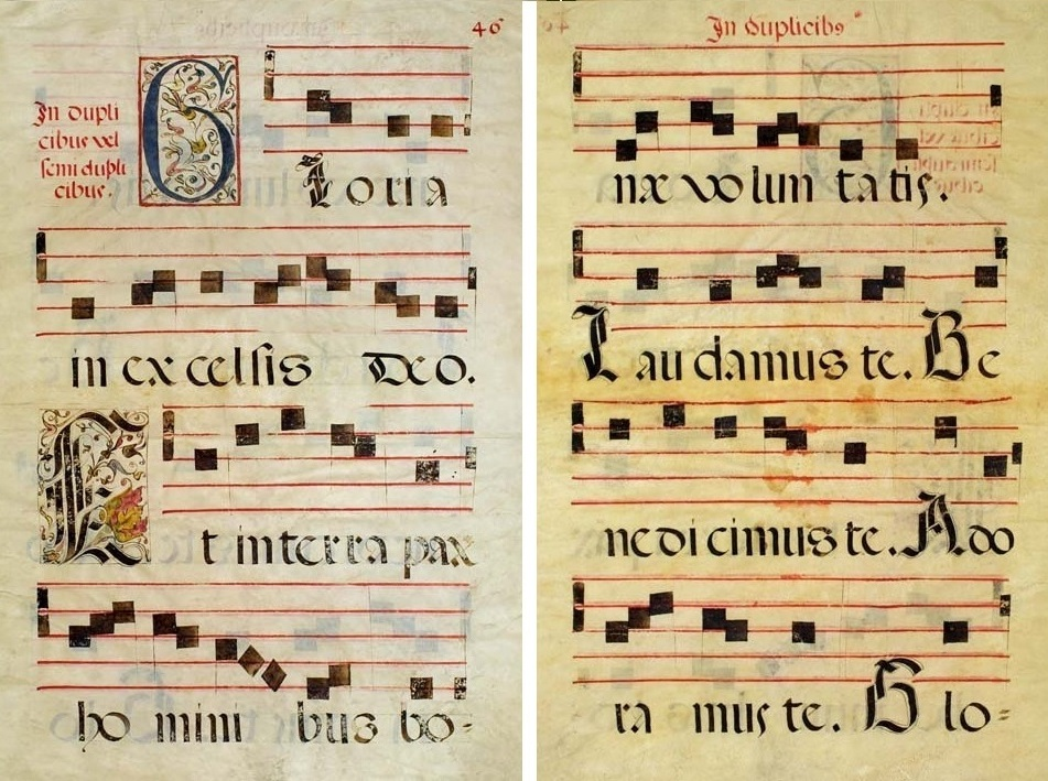 Beginning of Gloria in excelsis from Ms. 002091 of Dartmouth College Library; Italy, 16th century